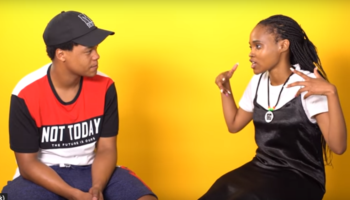 SHUGA DEBATE - Lerato Walaza and Jezriel talk Condom Usage 2019